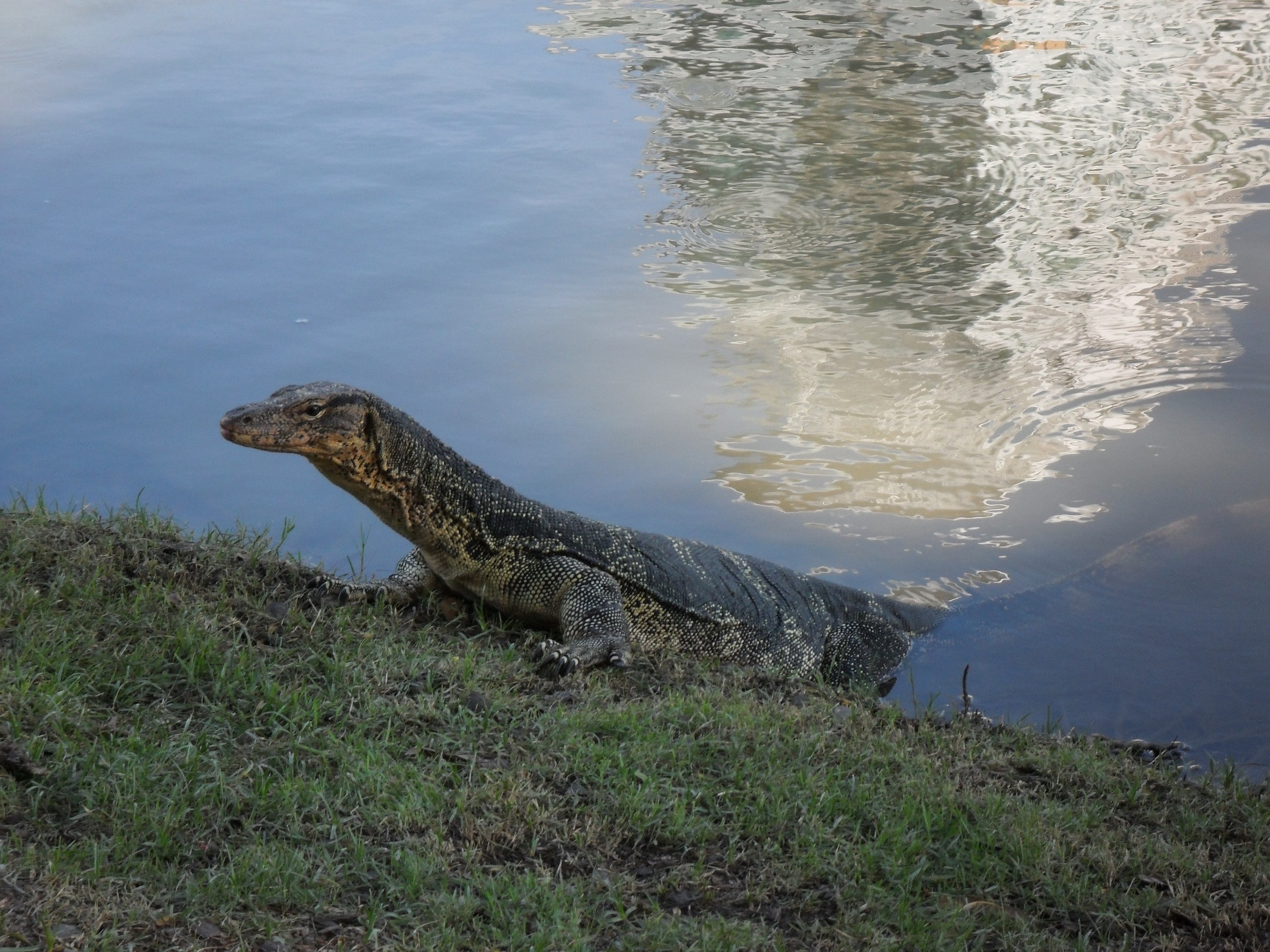 A varanus (salvator komaini) in Thailand